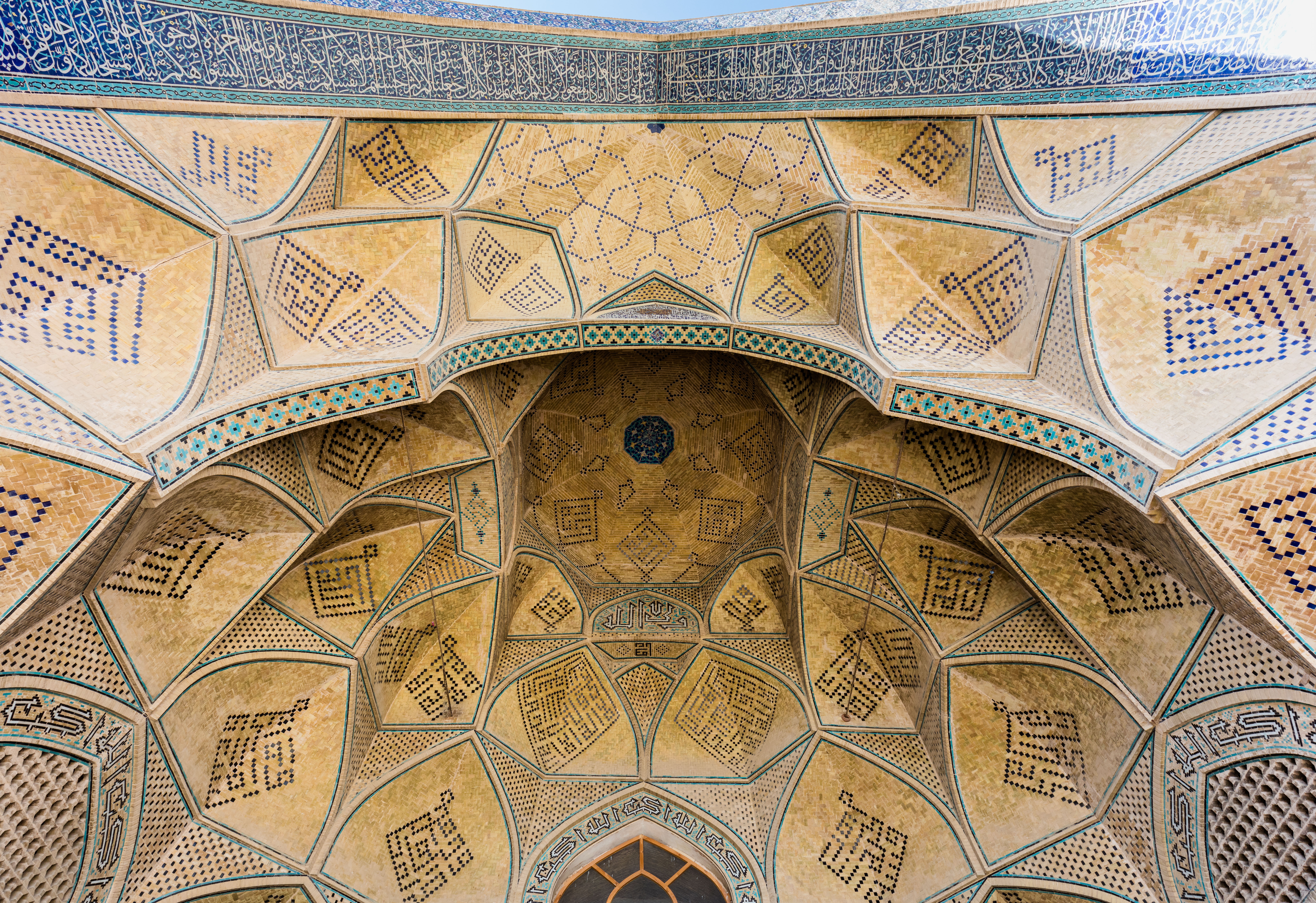 Jameh Mosque of Isfahan, Isfahan, Iran